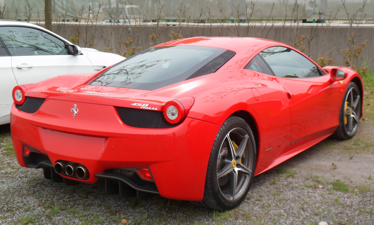 Ferrari 458 Italia photographed in Anting, Shanghai municipality, China.